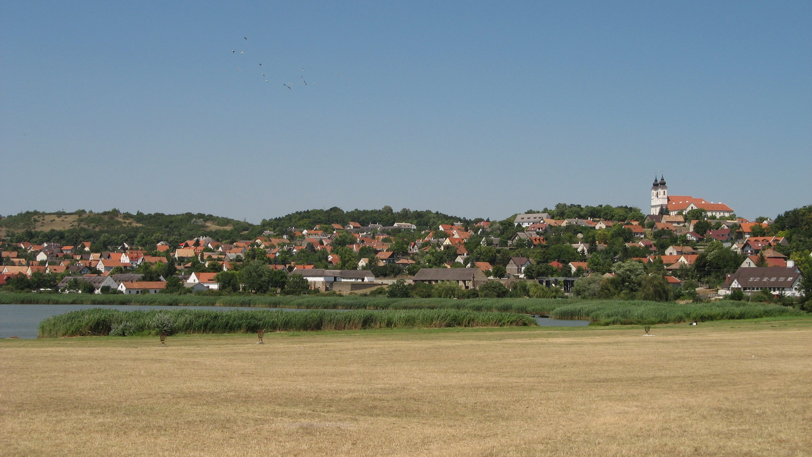 Benedictine Abbey on Tihany Peninsula